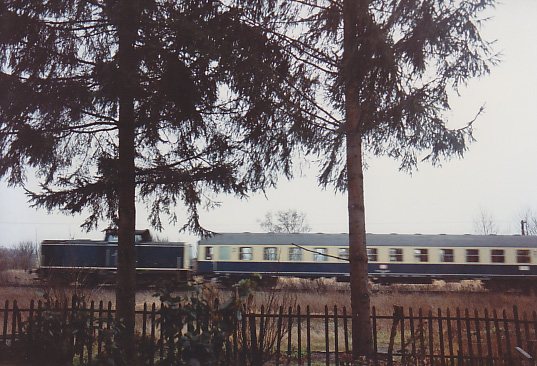 Train near the Jerxheim train station.